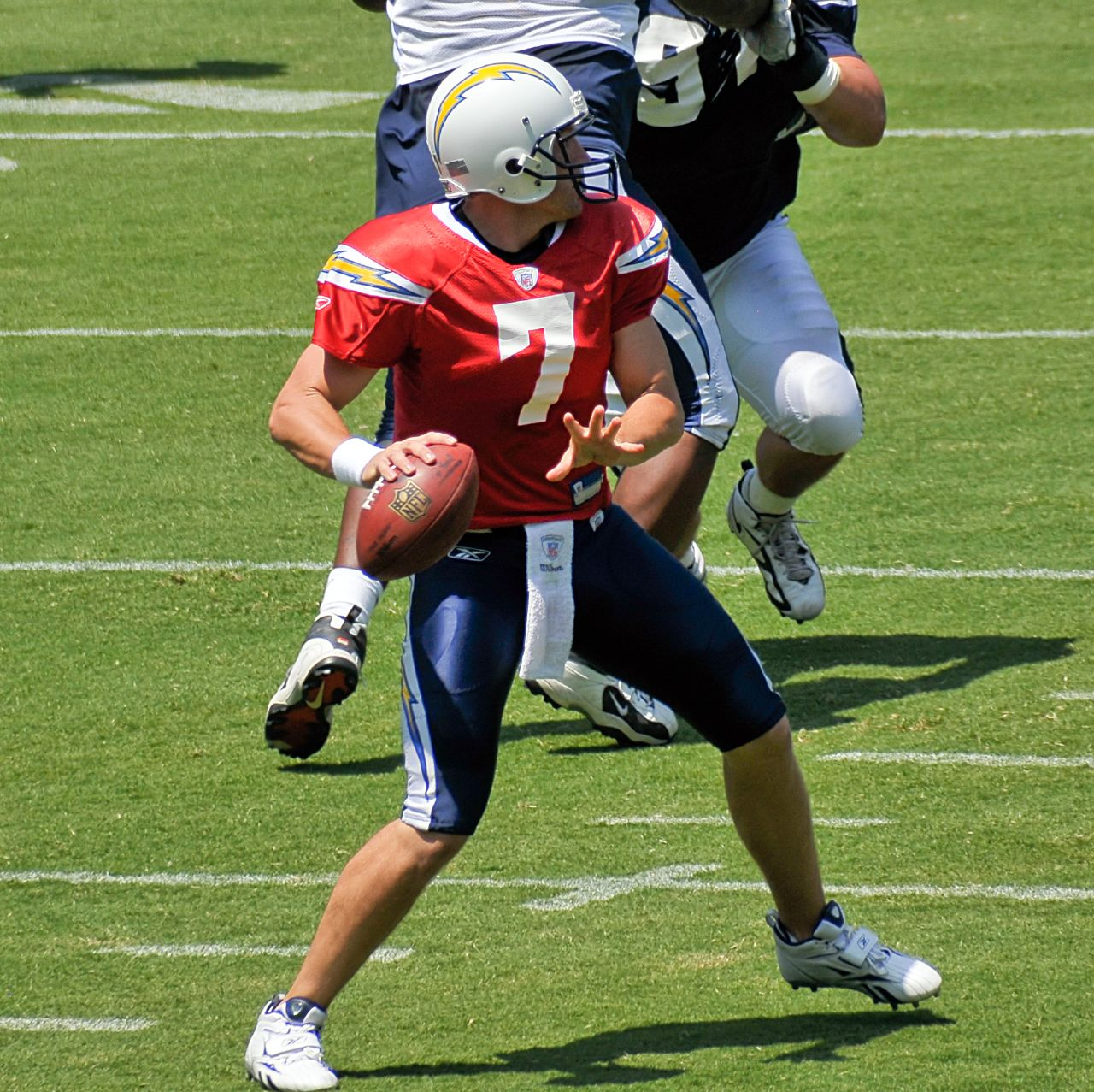 Billy Volek at a San Diego Chargers pre-season practice game 2008